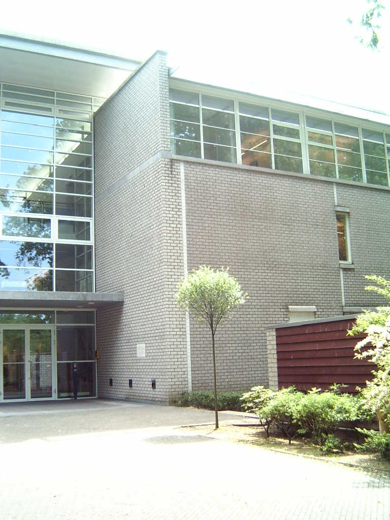 Max Planck Instituut voor Psycholinguïstiek Nijmegen Author: Cicero